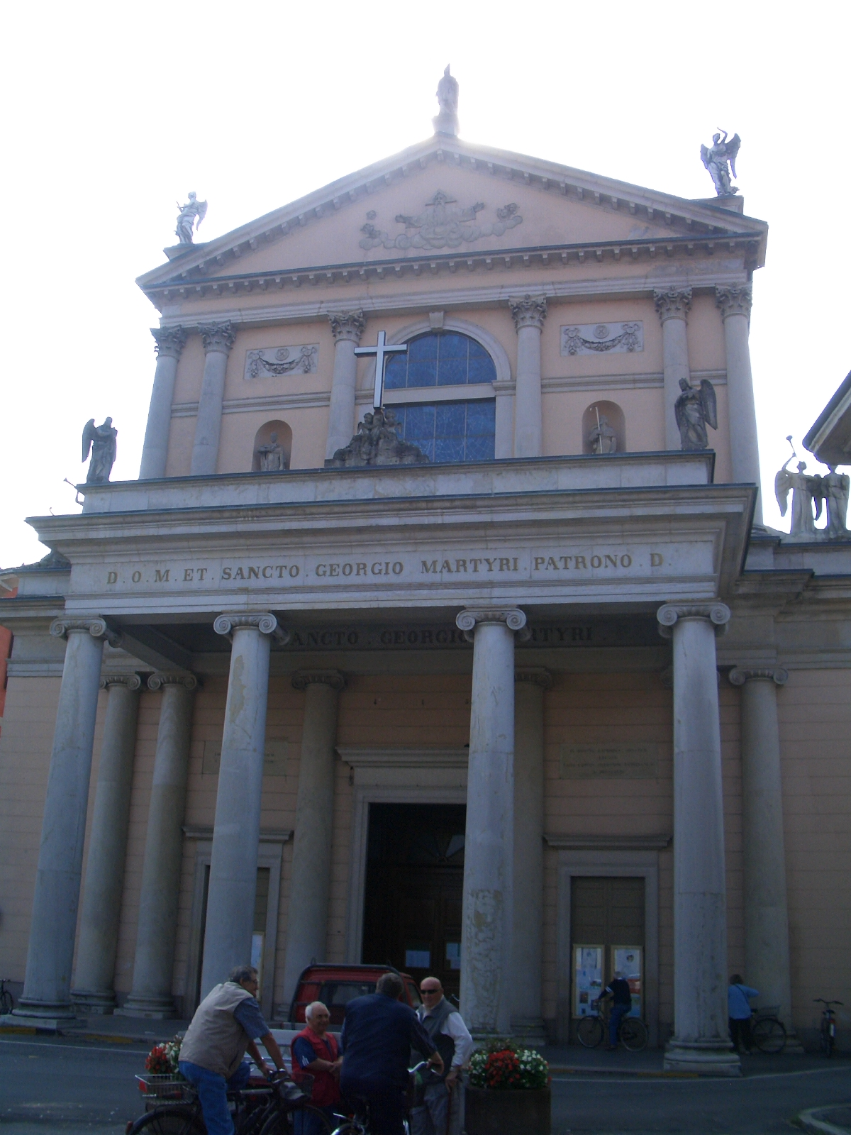 St. Giorgio's church at Cuggiono, Italy